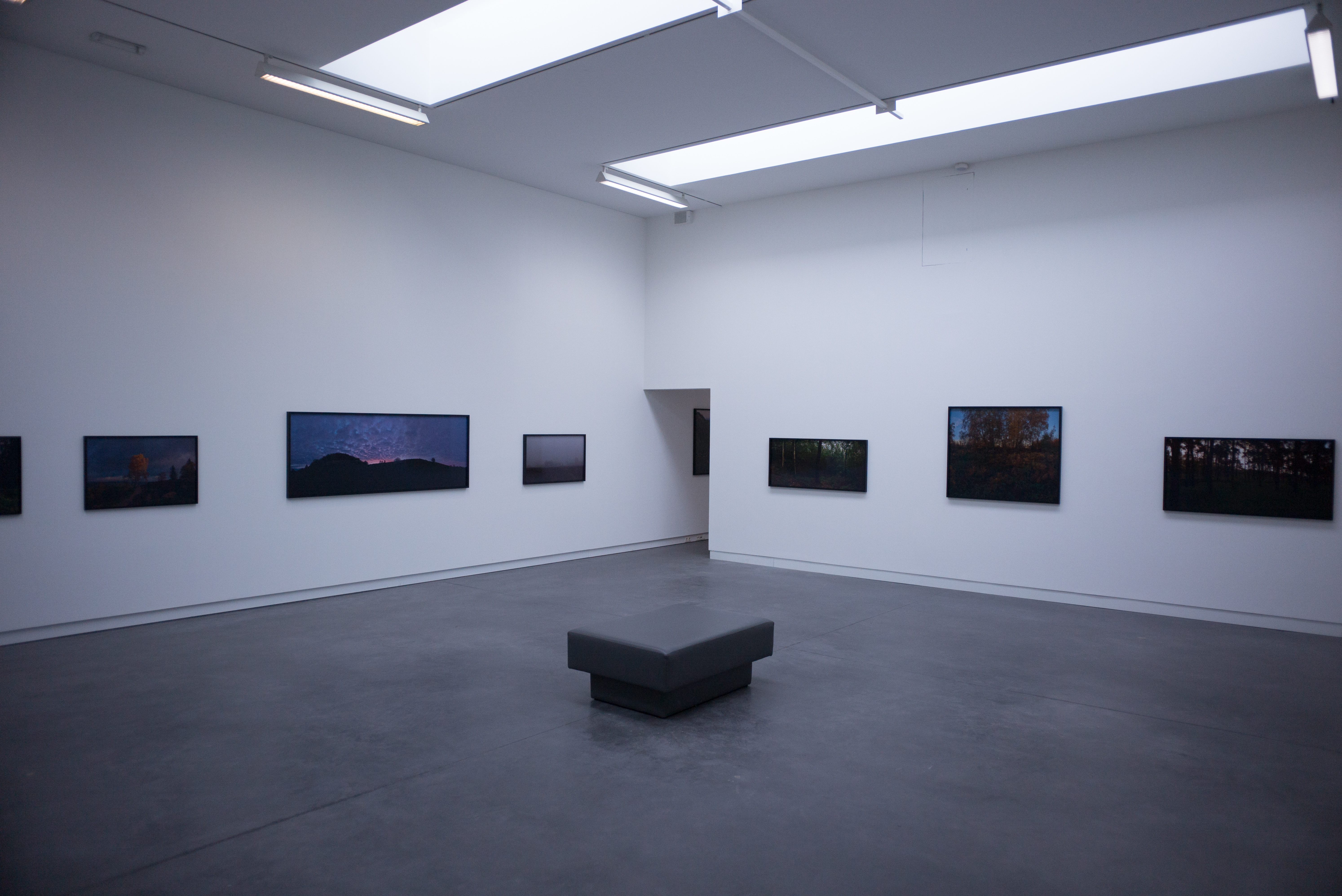 Exhibition Creyghton & Van Duijnhoven at De Pont museum, Tilburg, the Netherlands